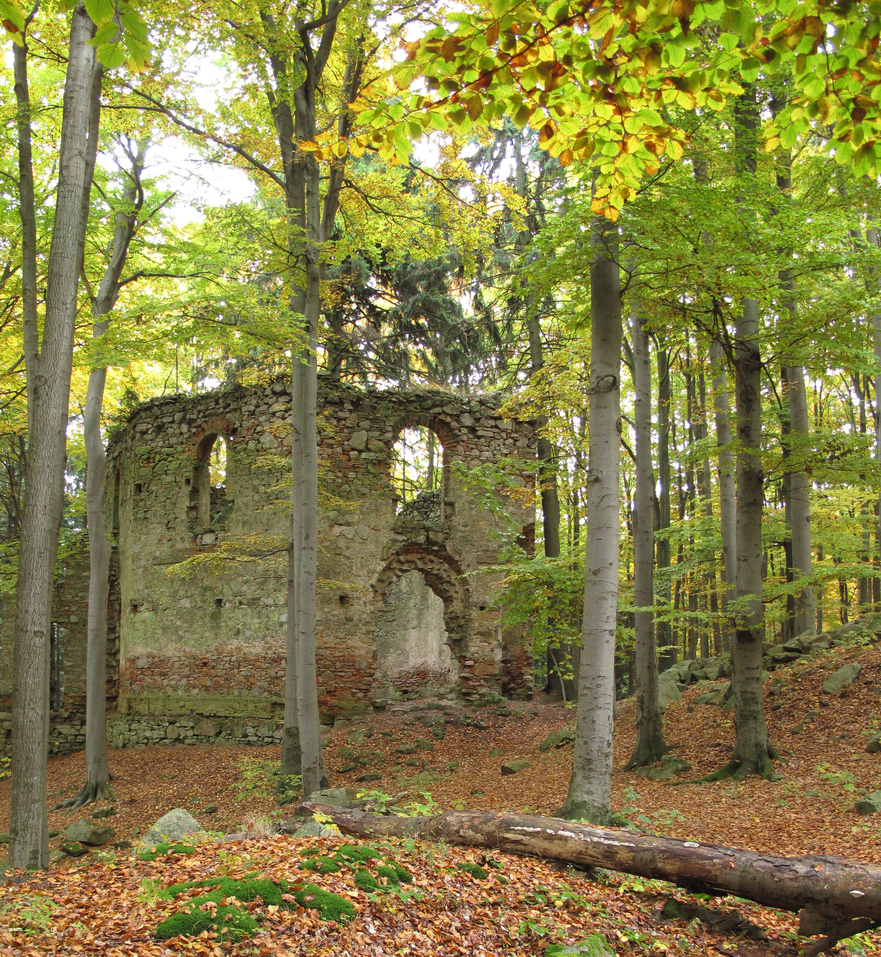 This photograph was taken within the scope of the Czech 'Photo Workshops' grant.